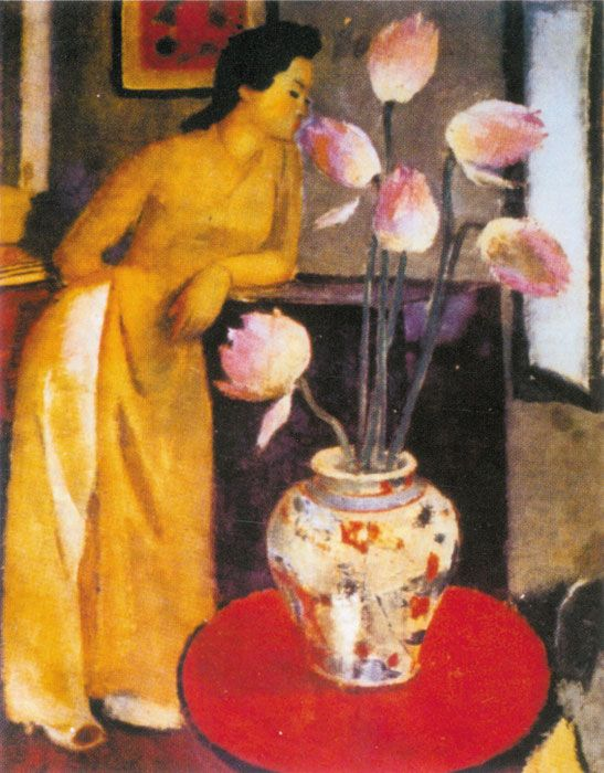 Thiếu nữ bên hoa sen (Young Woman with Lotus flower), oil, 1951, by Tô Ngọc Vân.